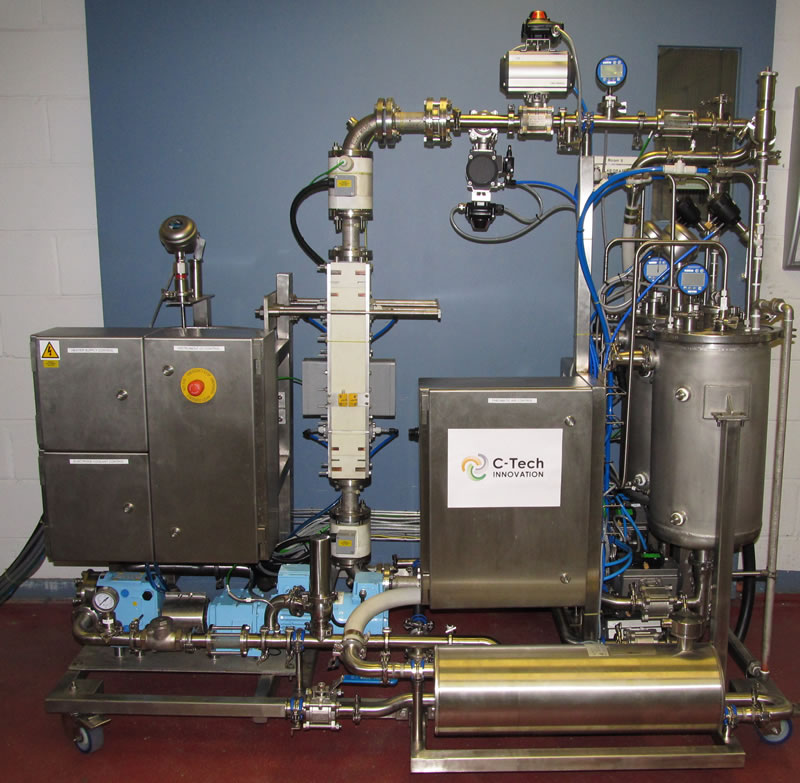 C-Tech Innovation Ohmic Heater integrated with fruit juice pasteurisation equipment.jpg